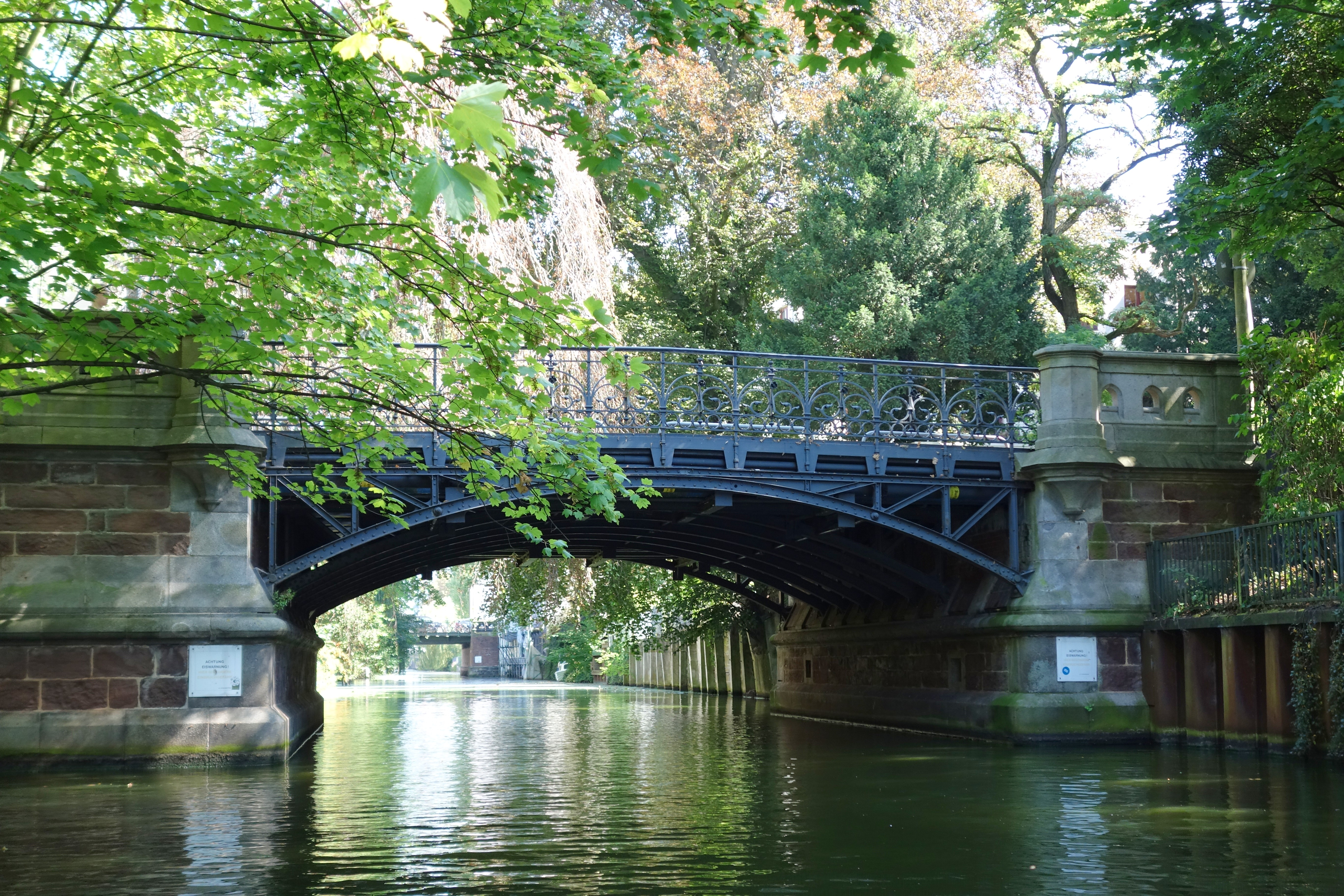 This bridge in Hamburg (Germany) leads the Herbert-Weichmann-Straße over the Uhlenhorster Kanal